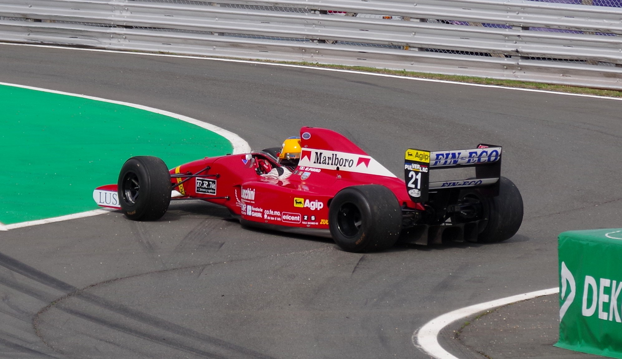 Dallara 191 (F191) in Brands Hatch 2018, during a DTM race.